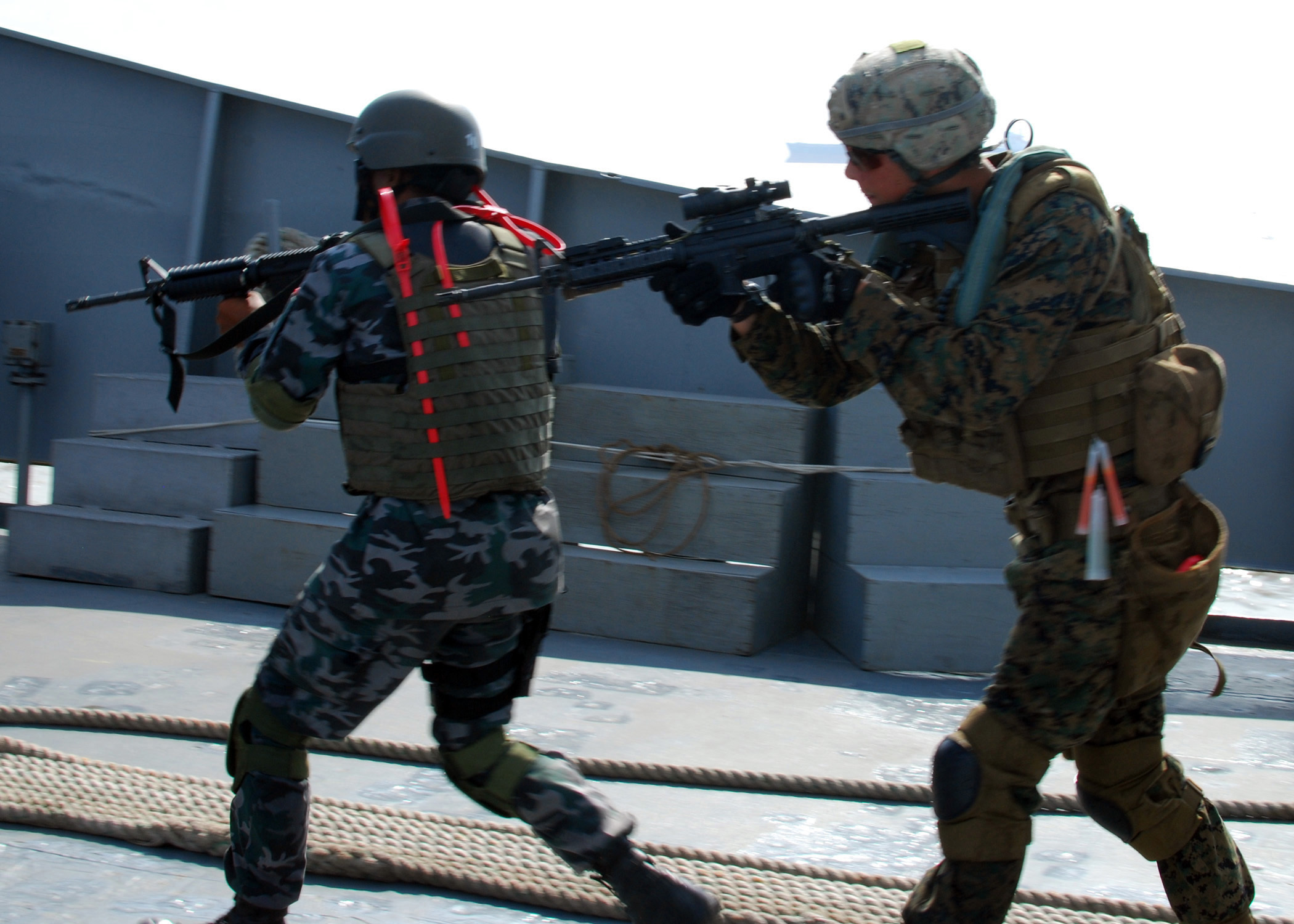 A U.S. Marine assigned to Fleet Anti-terrorism Security Team Pacific and a Bangladesh Navy sailor with Special Warfare Diving and Salvage Command engage the enemy during a noncompliant boarding exercise aboard the Bangladesh Navy offshore patrol vessel BNS Sangu (P 713) during Cooperation Afloat Readiness and Training (CARAT) 2012 in the Bay of Bengal Sept. 22, 2012. CARAT is a series of bilateral exercises held annually in Southeast Asia to strengthen relationships and enhance force readiness. (U.S. Navy photo by Lt. Cmdr. Clay Doss/Released) Unit: Defense Imagery Management Operations Center DVIDS Tags: M4 carbine; USN; CARAT12